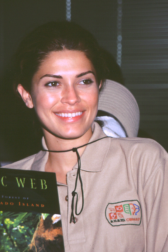 Justine Pasek, first Miss Universe from Panama¡, during a visits to Barro Colorado Island and surrounding peninsulas, on Thursday, November 7.